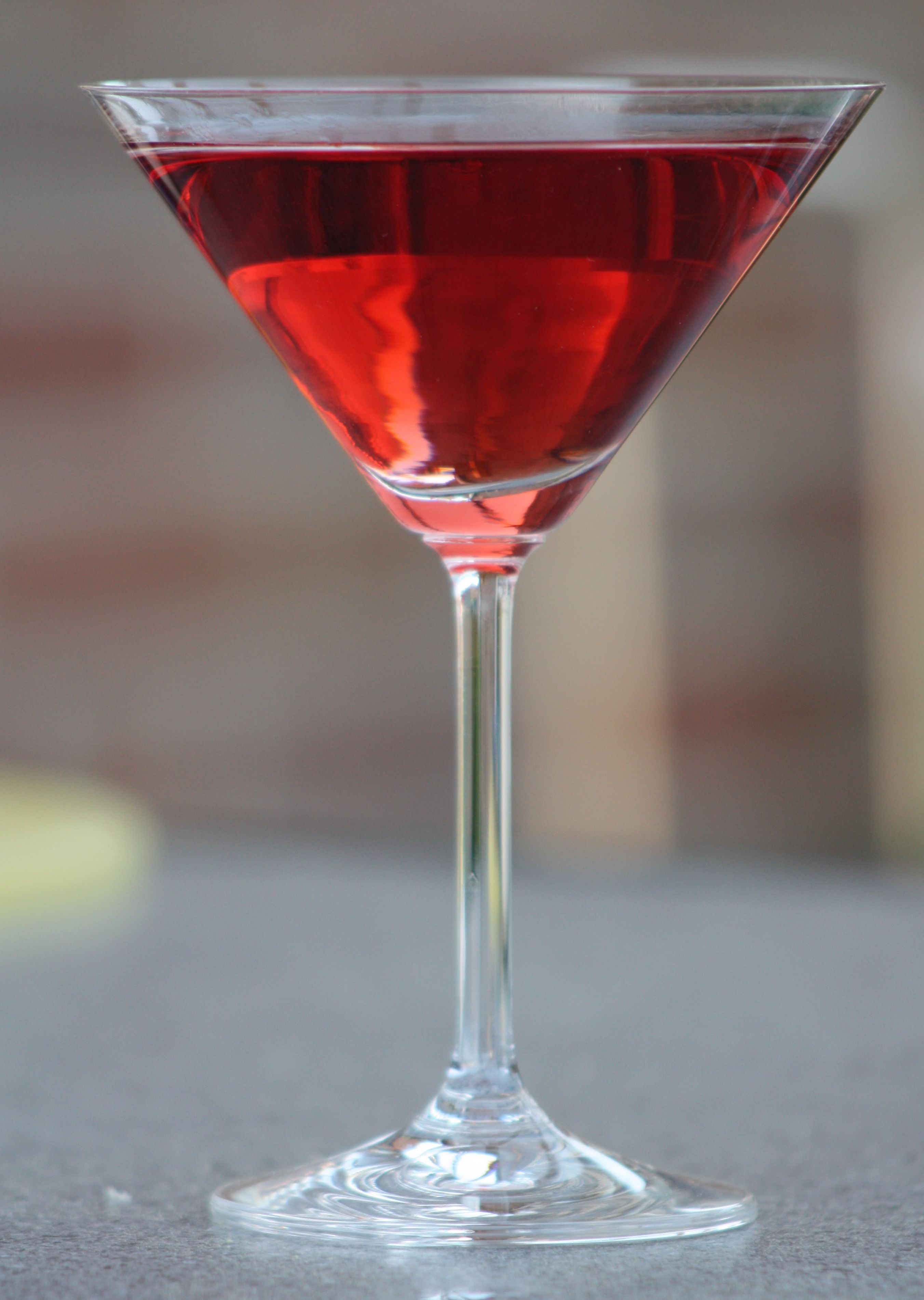 Martinifglas; Cocktailglas